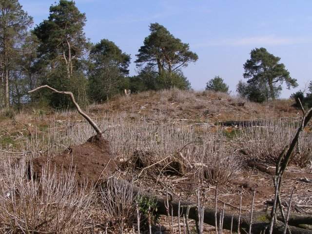 One of the Rainbarrows, Duddle Heath The mound in this picture is one of three Bronze Age bowl barrows on Duddle Heath, collectively named The Rainbarrows. Edward Cunnington excavated these barrows in 1887 and the cremation urns recovered are now held in the Dorset County Museum. The area around the rainbarrows has recently been cleared of scrub and rhododendron as part of the "Hardy's Egdon Heath Project" to re-establish the heathland on the edge of Puddletown Forest.